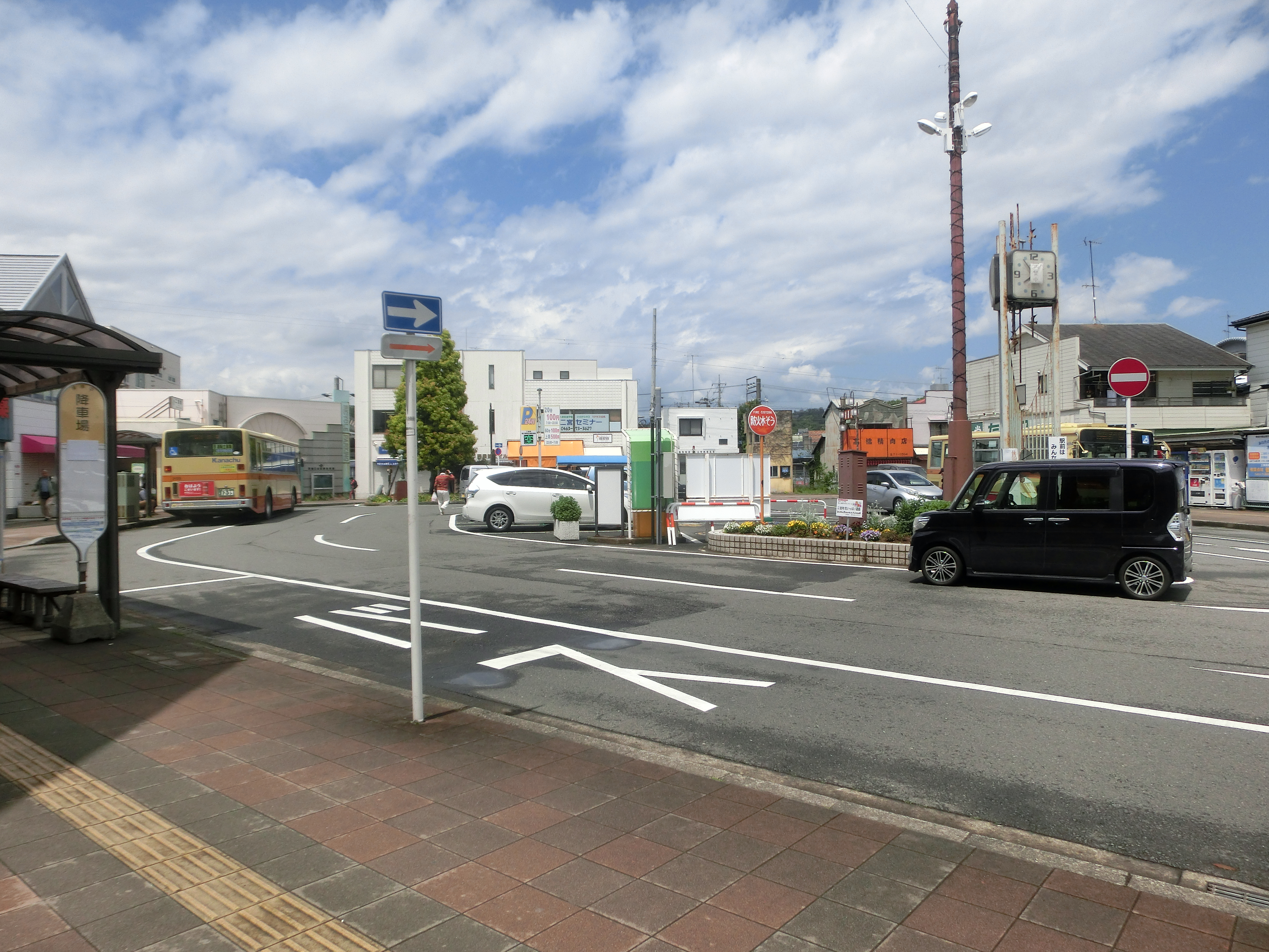 Ninomiya Station